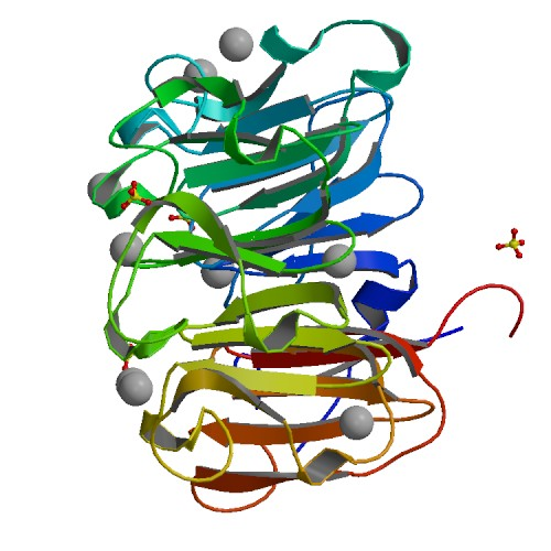 4L1M Structure of the first RCC1-like domain of HERC2, captured at 2.6 Å via X-ray diffraction